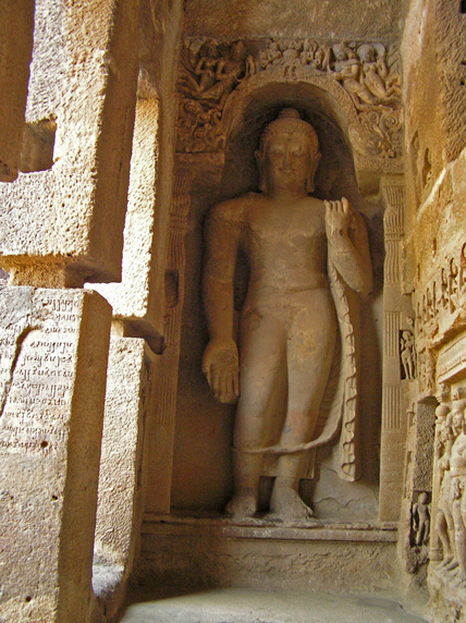 A large Statue stands in the wall of the main cave